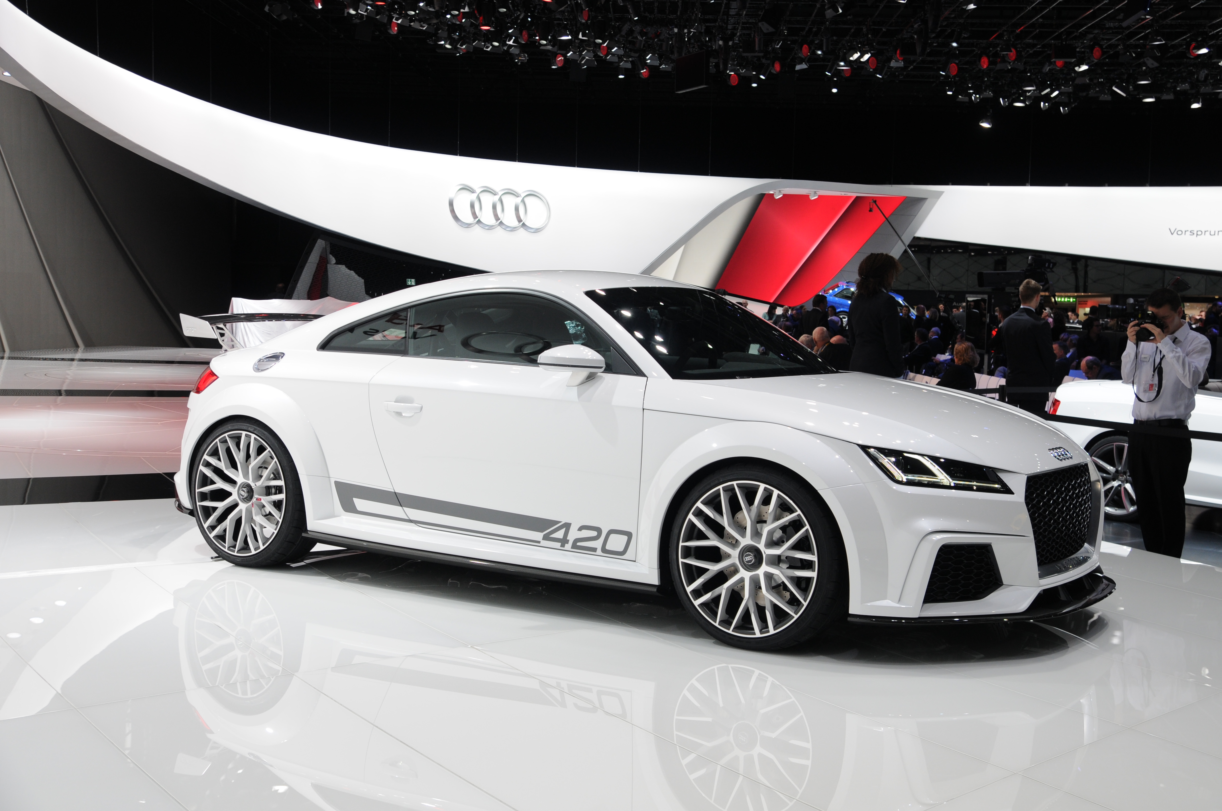 Geneva Motor Show 2014 (photo taken on the first press day)